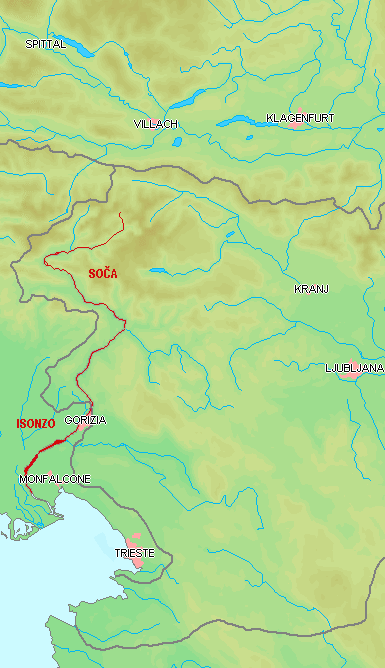 The Italian-Slovenian river Soča/Isonzo